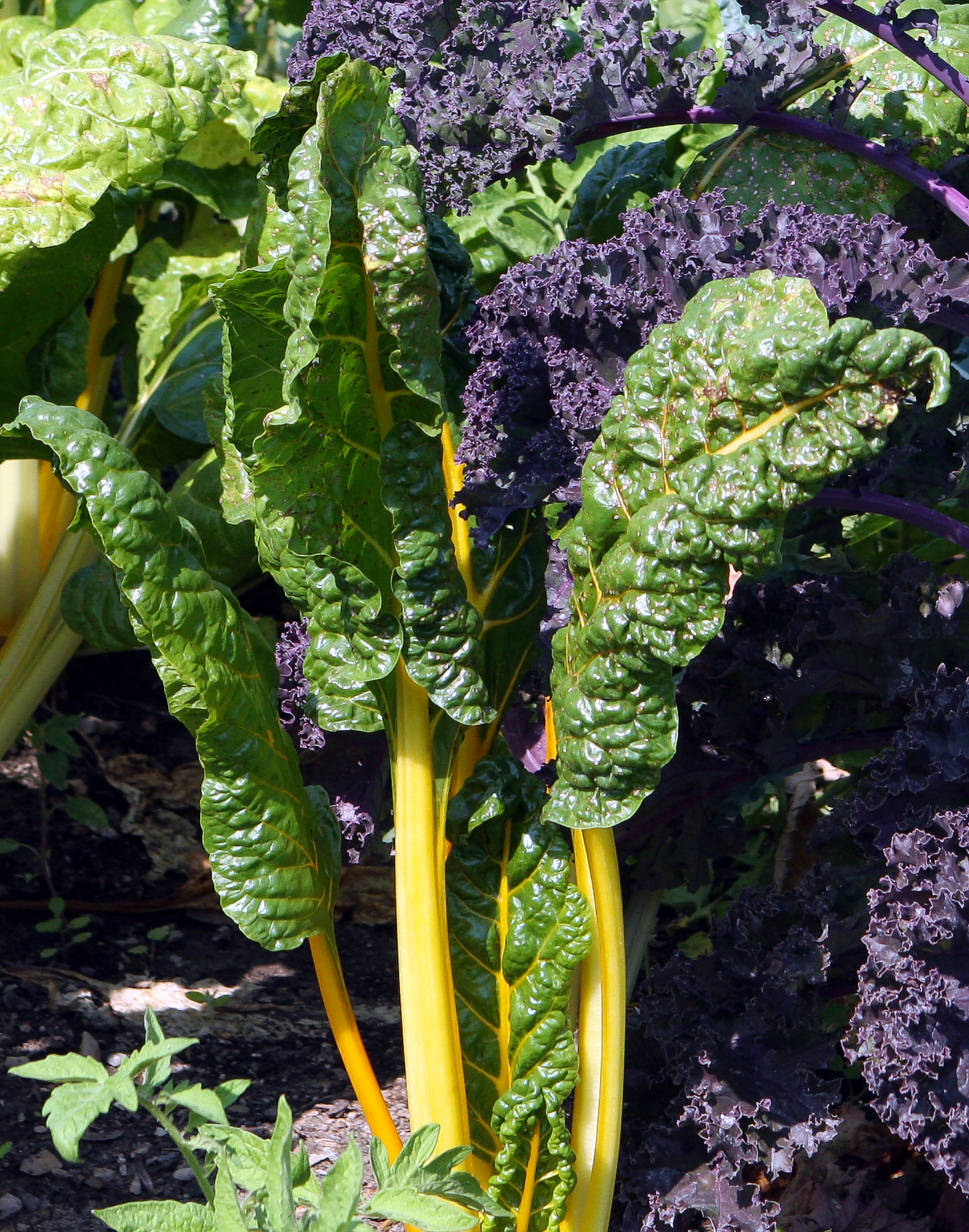 Self made image of 'Brightlights' Chard.